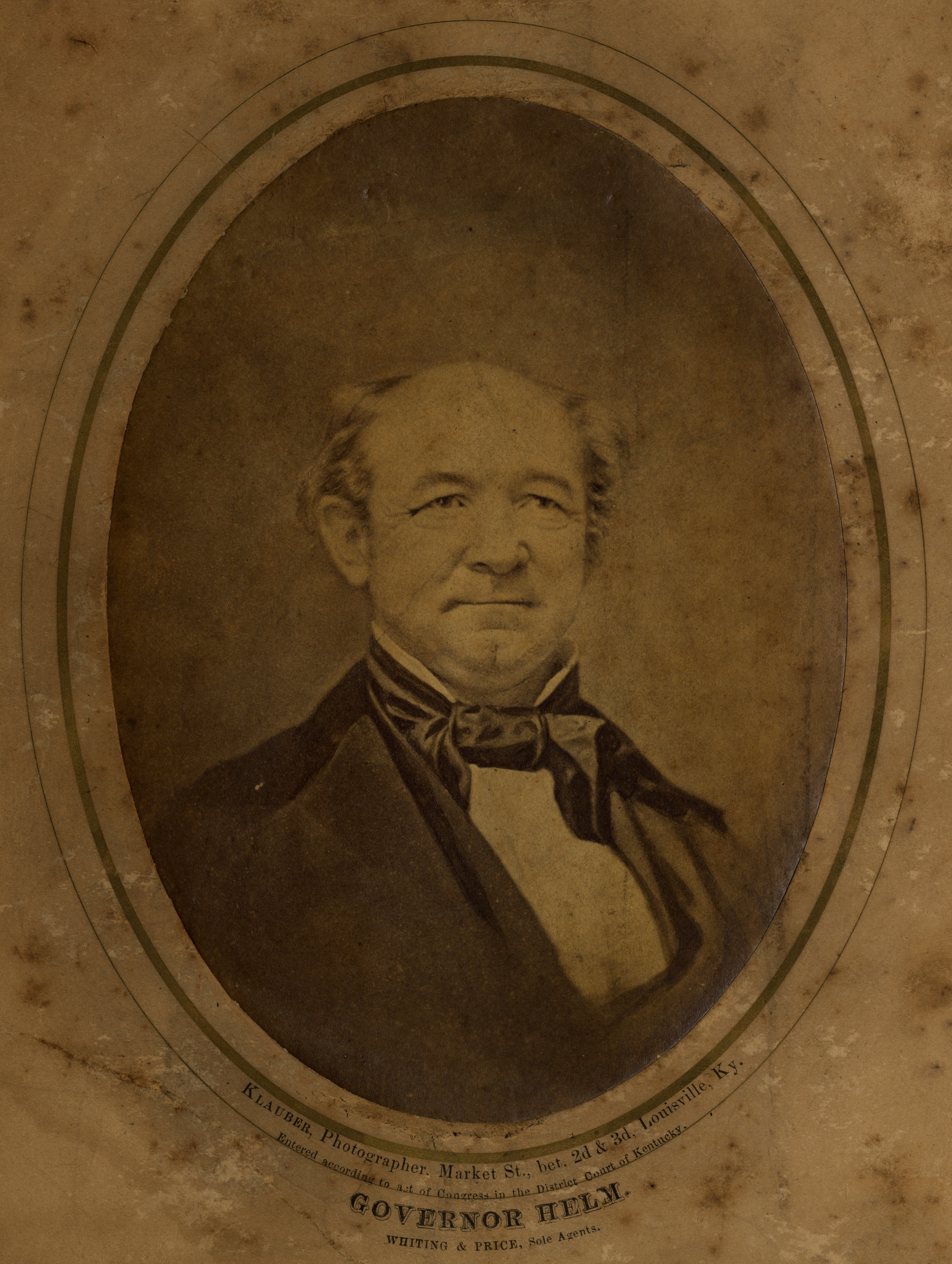 Photograph of Gov. John LaRue Helm of Kentucky